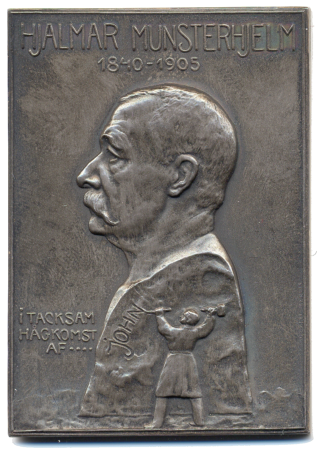 Depicts John Munsterhjelm in the act of putting the finalizing touch of his own name on a large sculpture of his father Hjalmar Munsterhjelm.